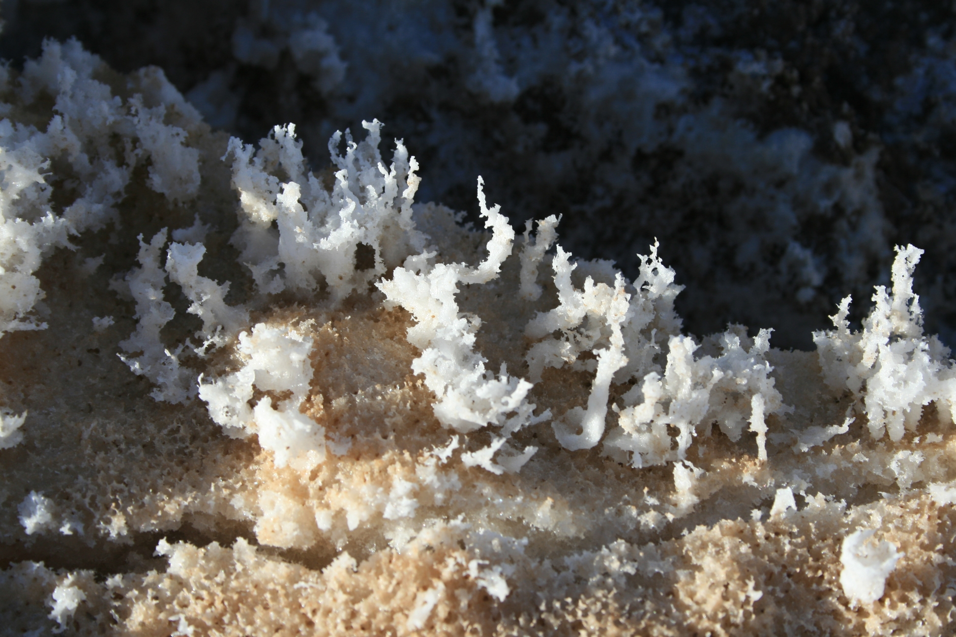 Salt crystals atDevil's Golf Course in Death Valley National Park